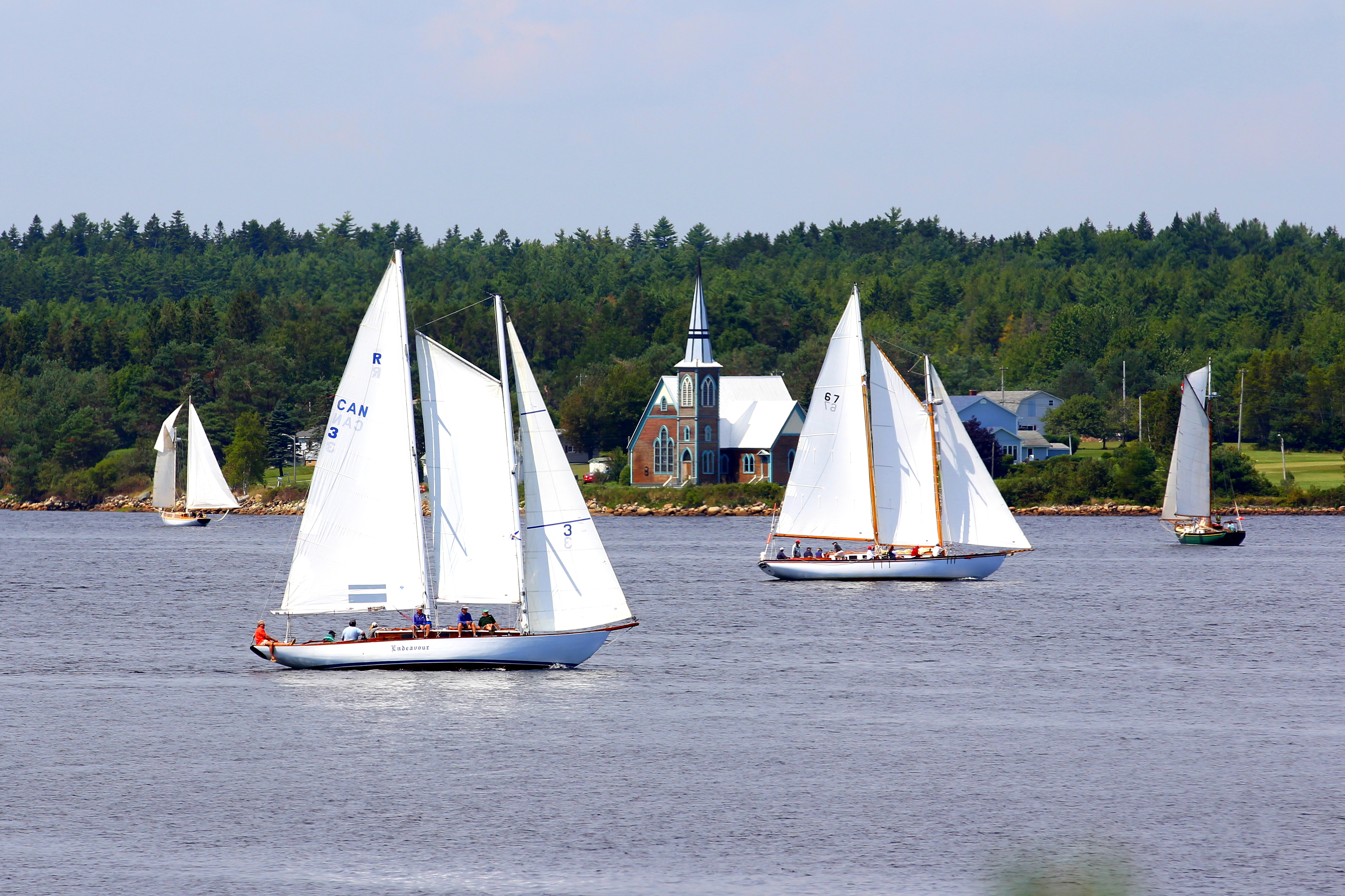 2014 NSSA Raceweek Riverport NS Middle LaHave St Marks